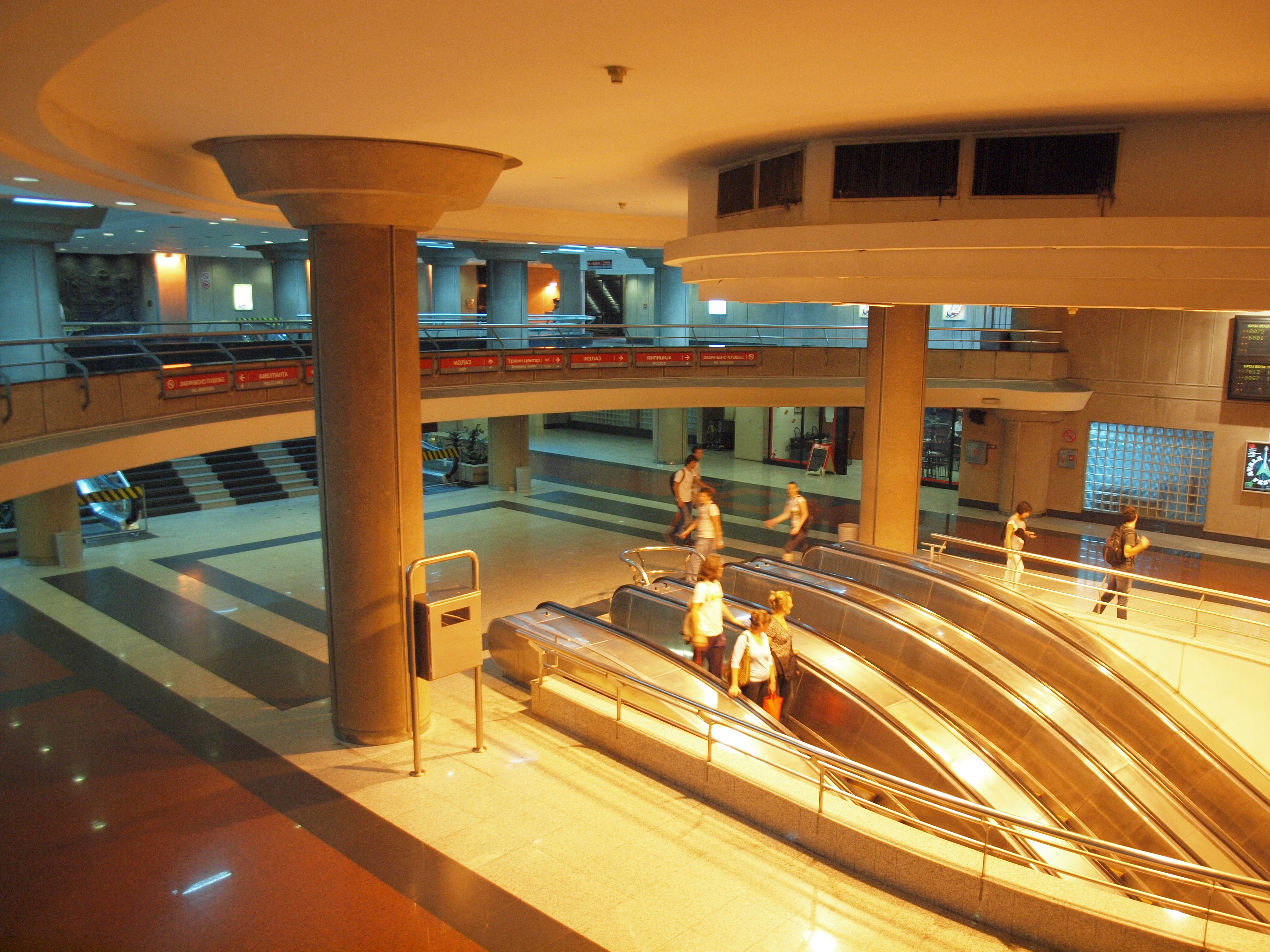 Escalator Gallery, Vukov spomenik, Belgrade